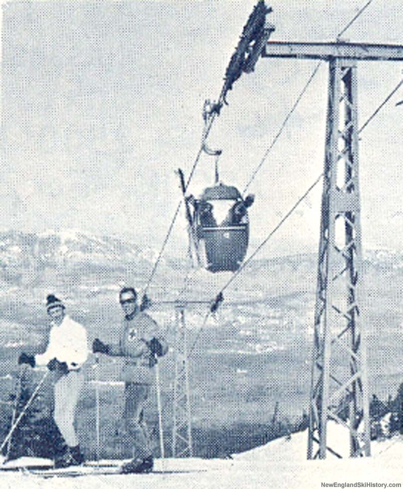 Original Sugarloaf Gondola, possibly early 70's.